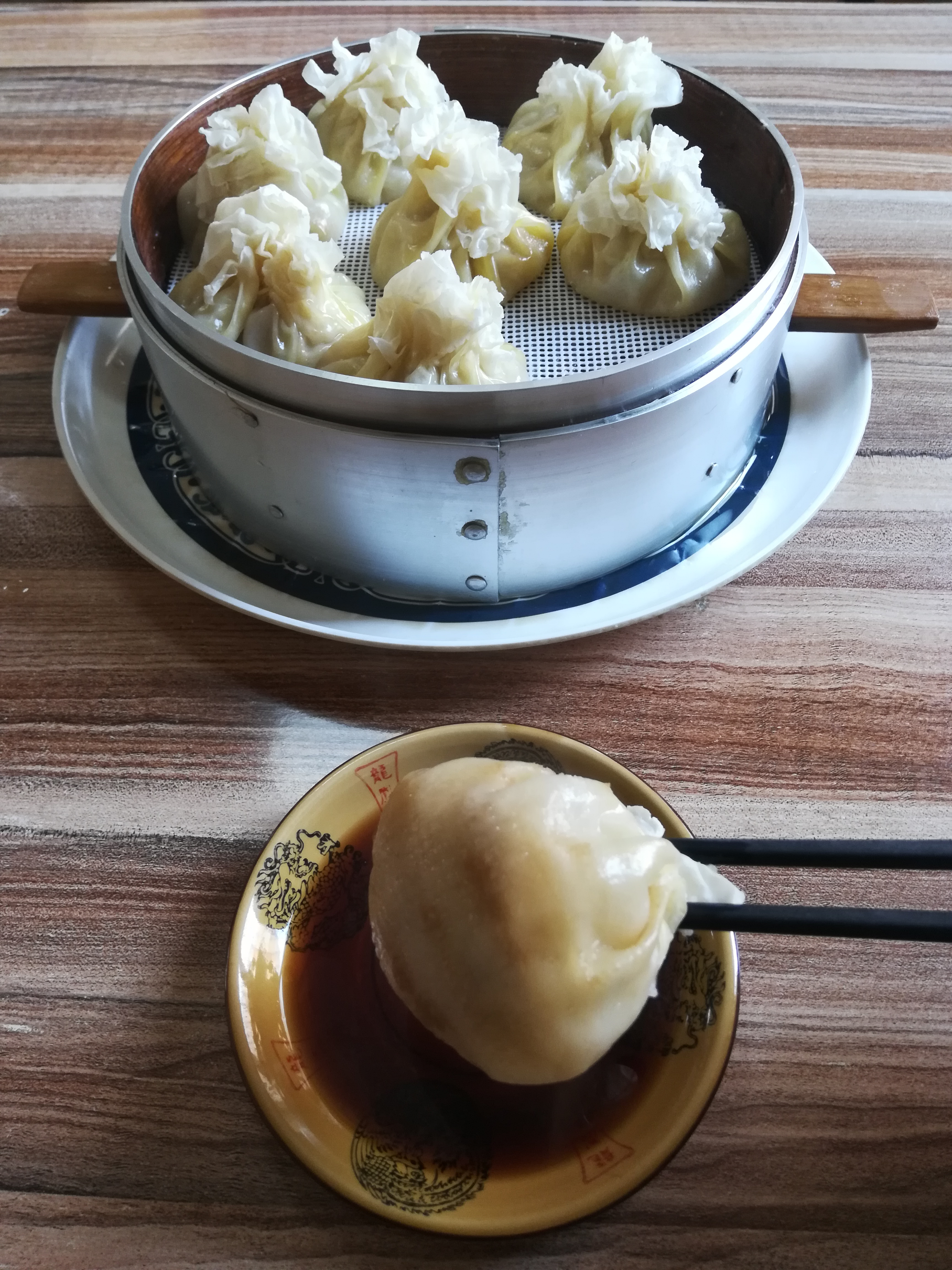 One serving of steamed traditional lamb shaomai, served with vinegar, in Huhhot.